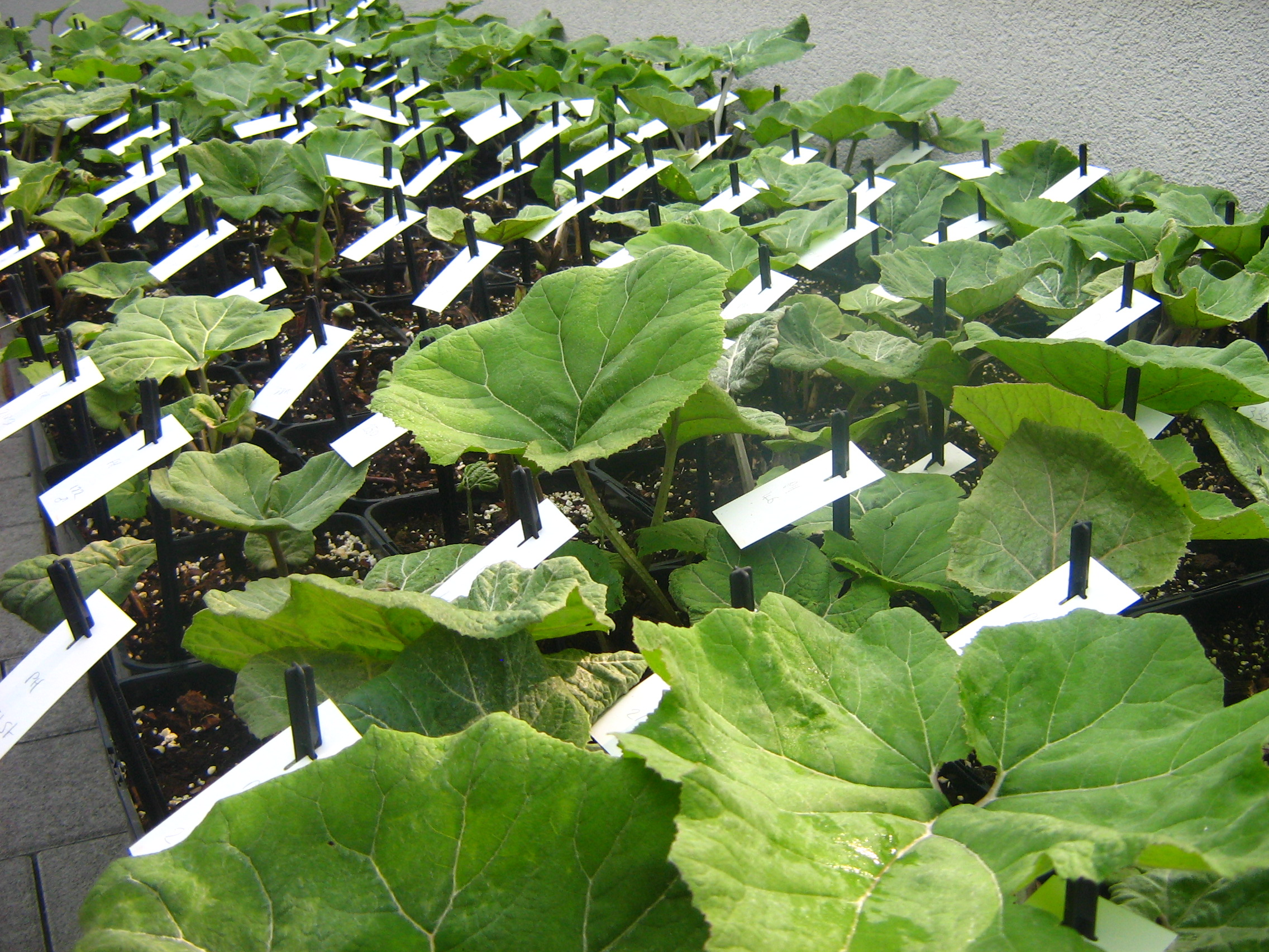 Petzell, the specialized variety of butterbur (Petasites Hybridus) prepared for planting on a commercial farm